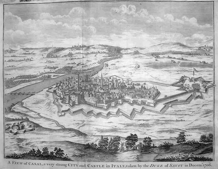 A View of Casal (today Casale Monferrato) ‘a very strong city & castle in Italy taken by the Duke of Savoy in Decem. 1706’, copper engraving, 35 x 48cm